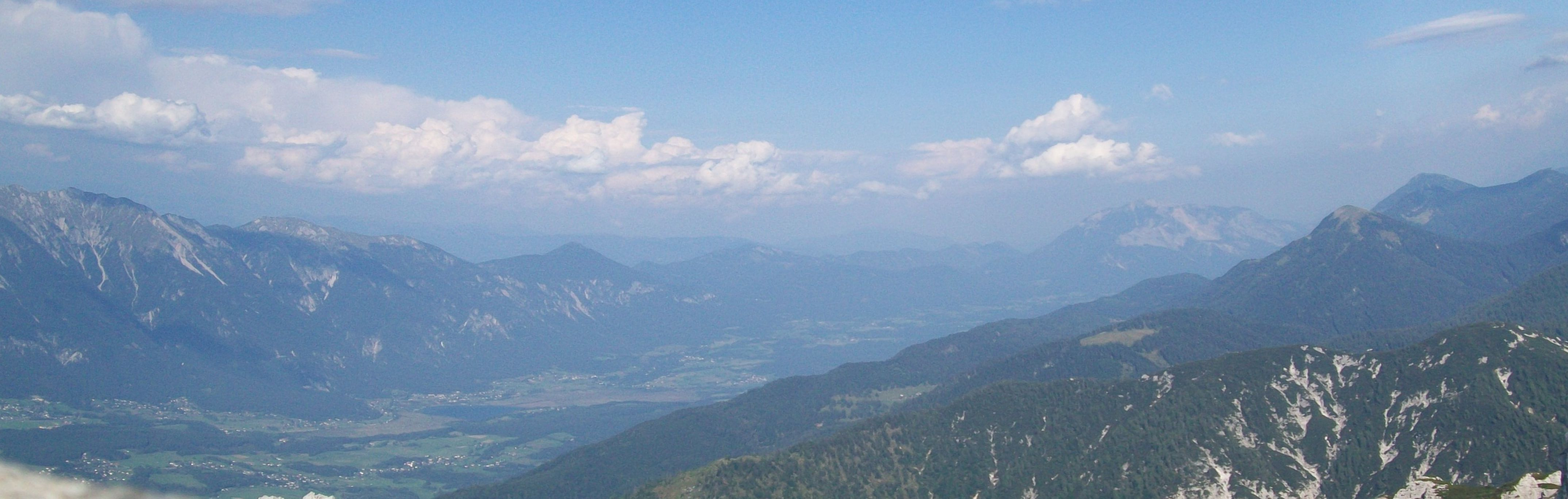 Gailtal from the peak of gartnerkofel